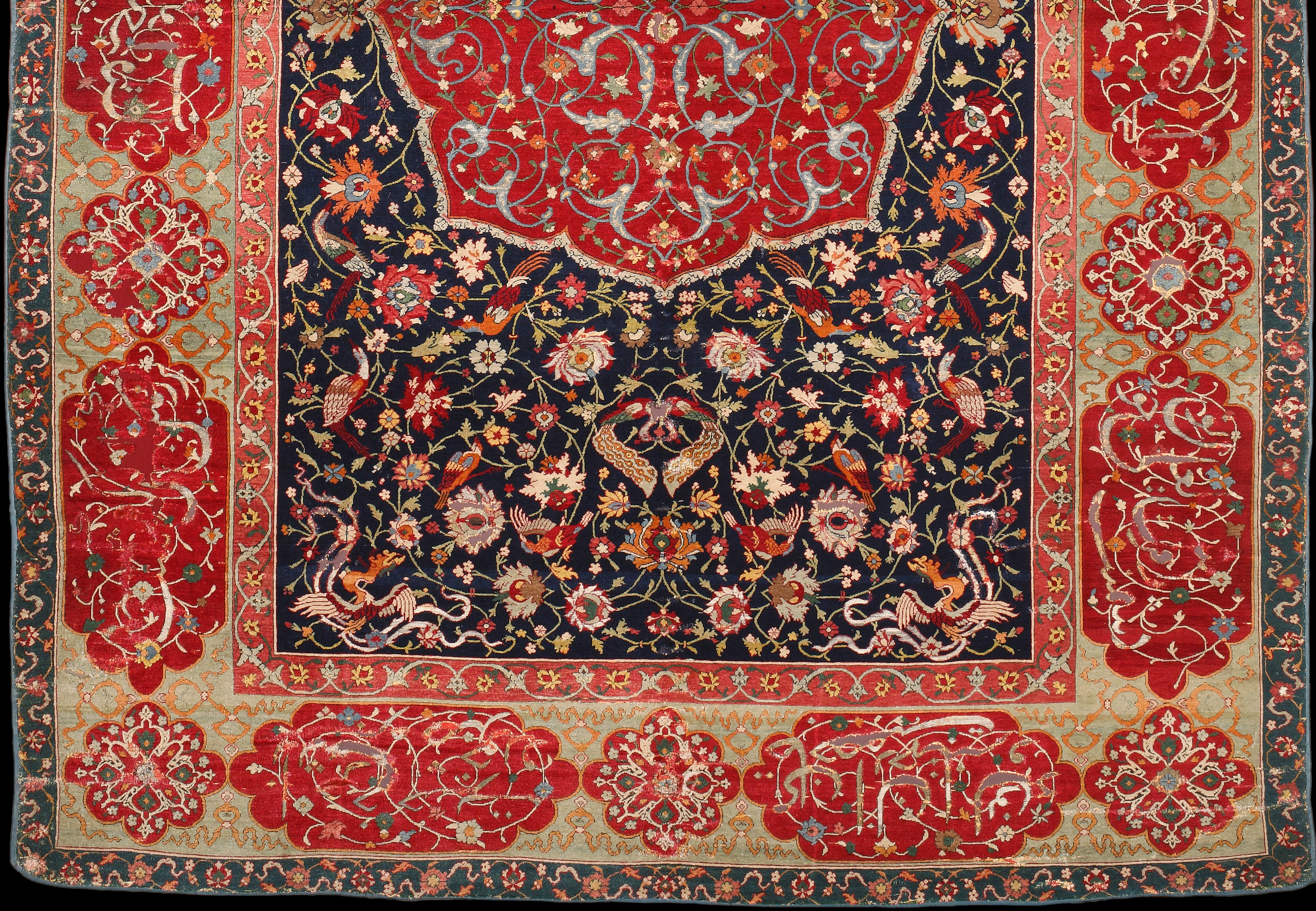 So-called Salting carpet, wool, silk and metal thread. about 1600. 226 × 162 cm. About a ottepas-shaped medallion with arabesques is a rectangular panel with phoenixes and other exotic birds in tendrils with Chinese-inspired flowers. The broadest of the three surrounding borders have ten fields with Persian verses written in Nastaliq - a mirror. The color scheme is very varied and supplemented with silver thread.The rug if decoration clearly reflects the Safavid court style around 1600, belongs to a group which for a time thought was Turkish copies 19th century older Persian originals. This assumption has now been disproved by historical, stylistic, and especially technological arguments.